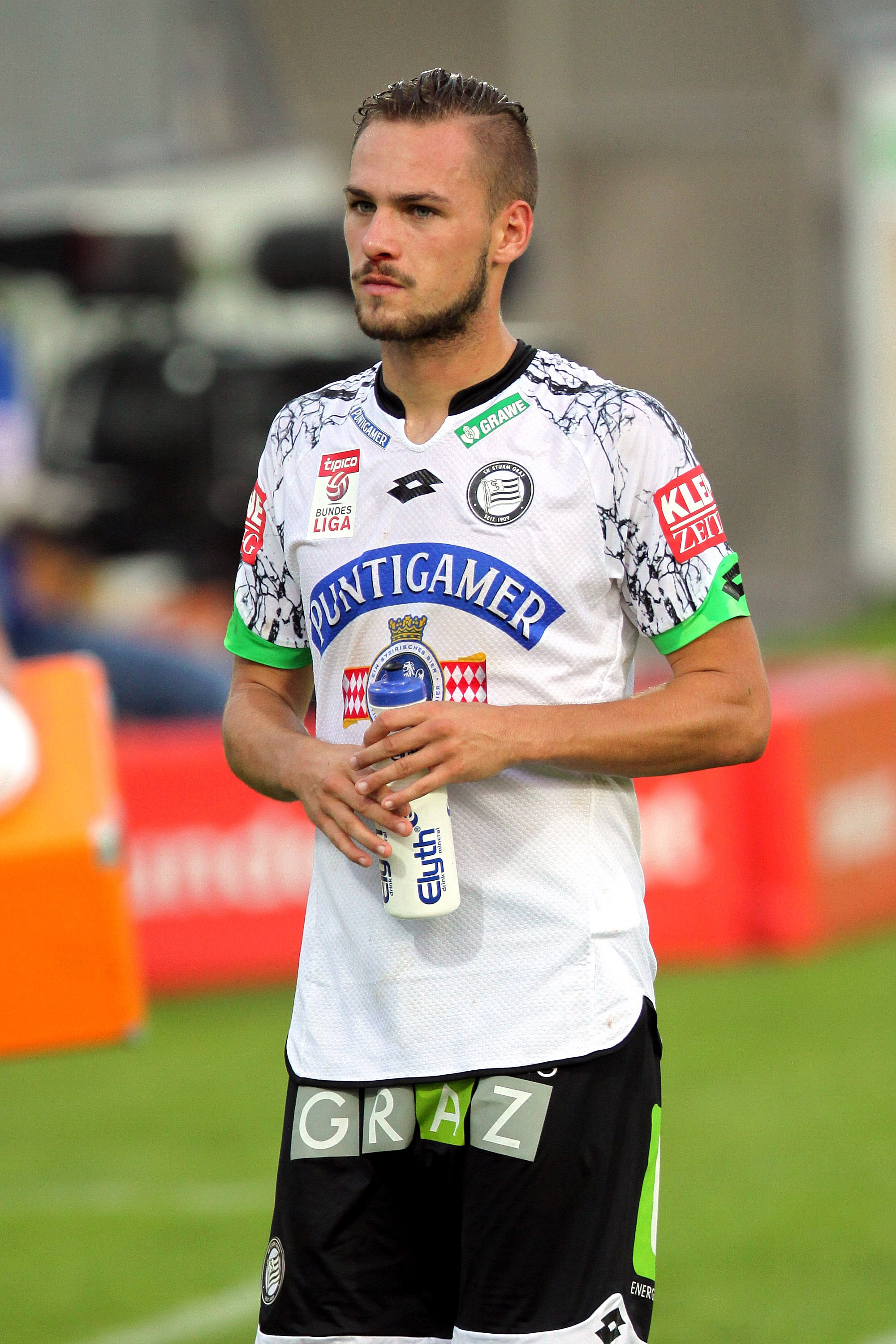 Match of the Austrian Football Bundesliga – SV Mattersburg (green shirts) vs. SK Sturm Graz (white shirts) on 2015-09-13 in Pappelstadion, Mattersburg – The photo shows Lukas Spendlhofer